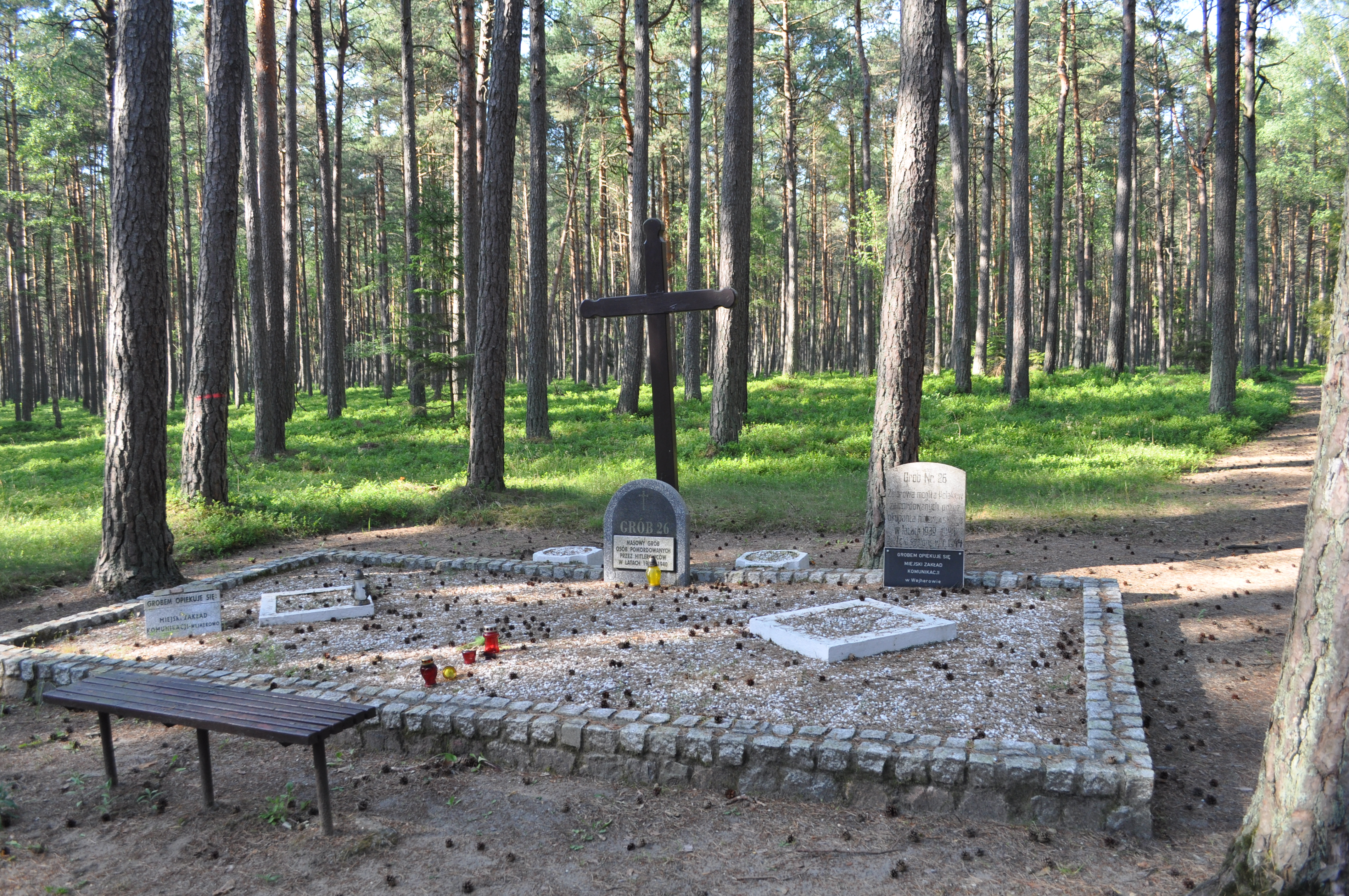 Mass grave in Piaśnica Forest